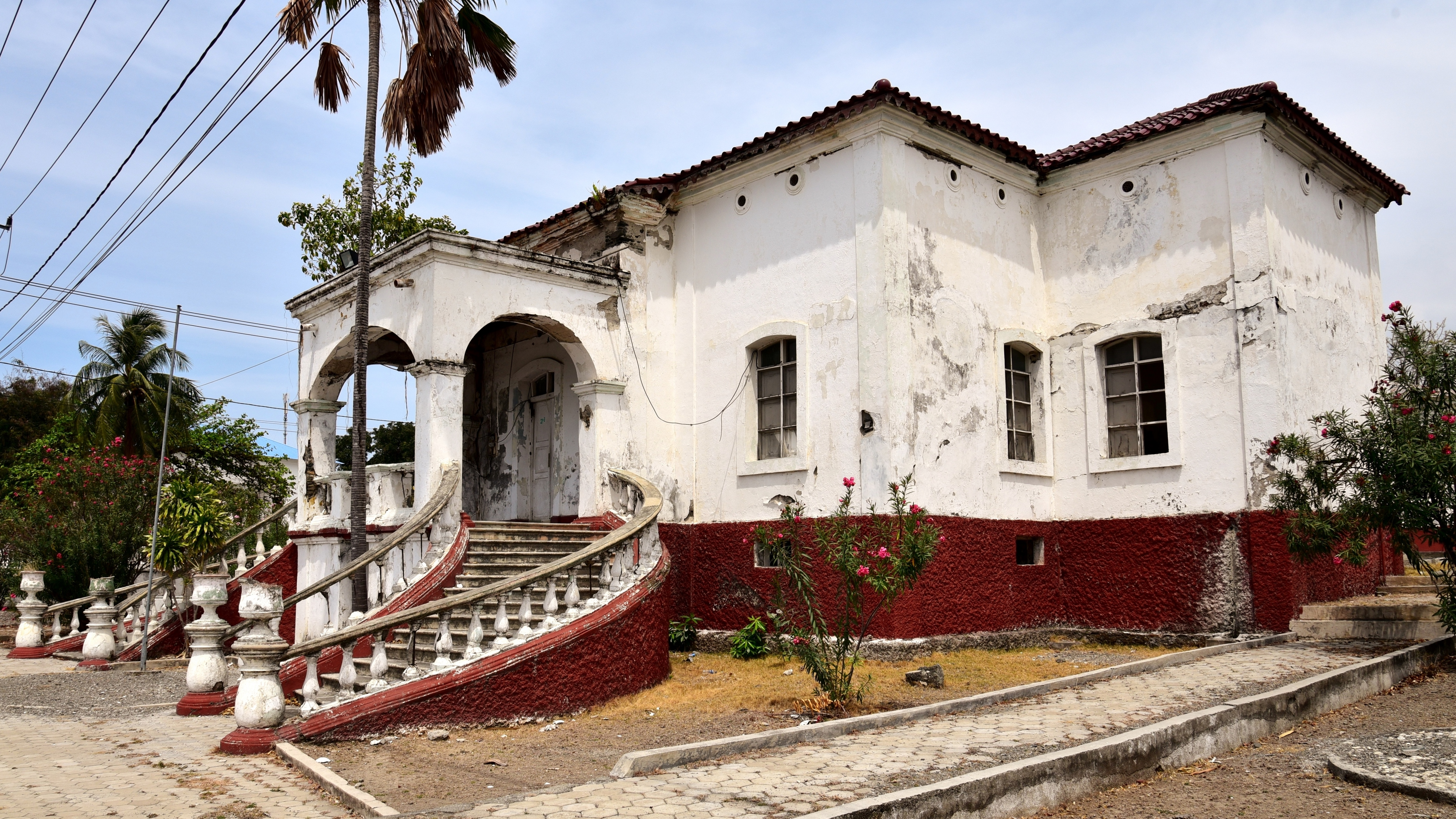 View of the Residência do Administrador (Residence of the Administrator), an historic buiding in Liquiçá, East Timor